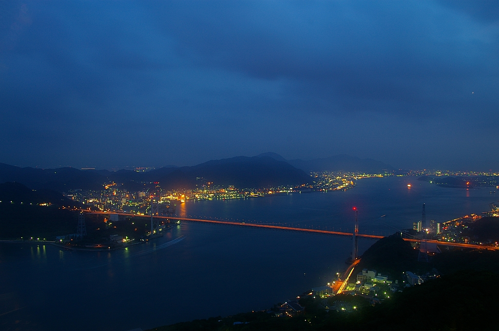 Kanmon Straits at Night